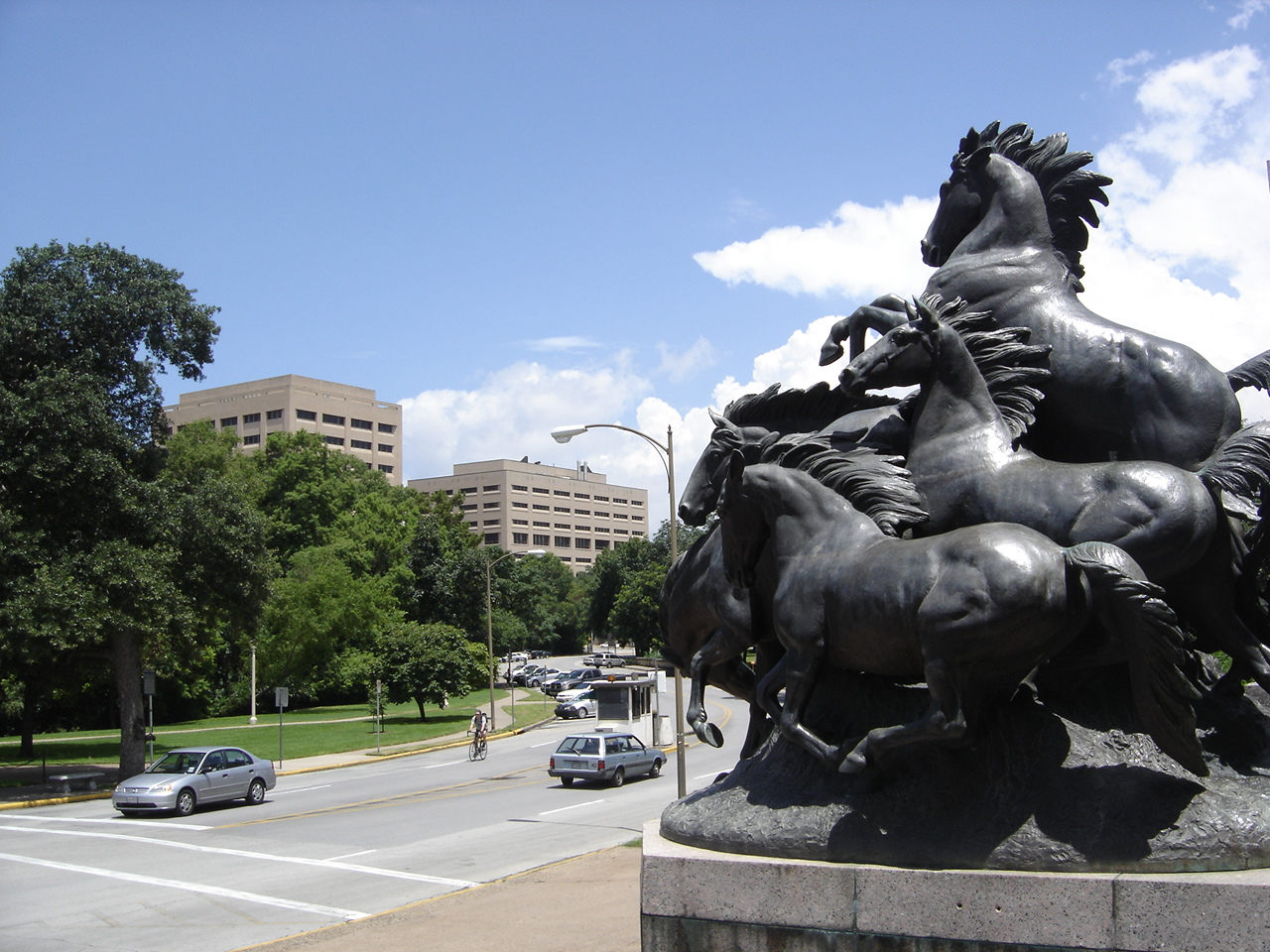 Engineering buildings in background. "The Mustangs" sculpture is also visible.